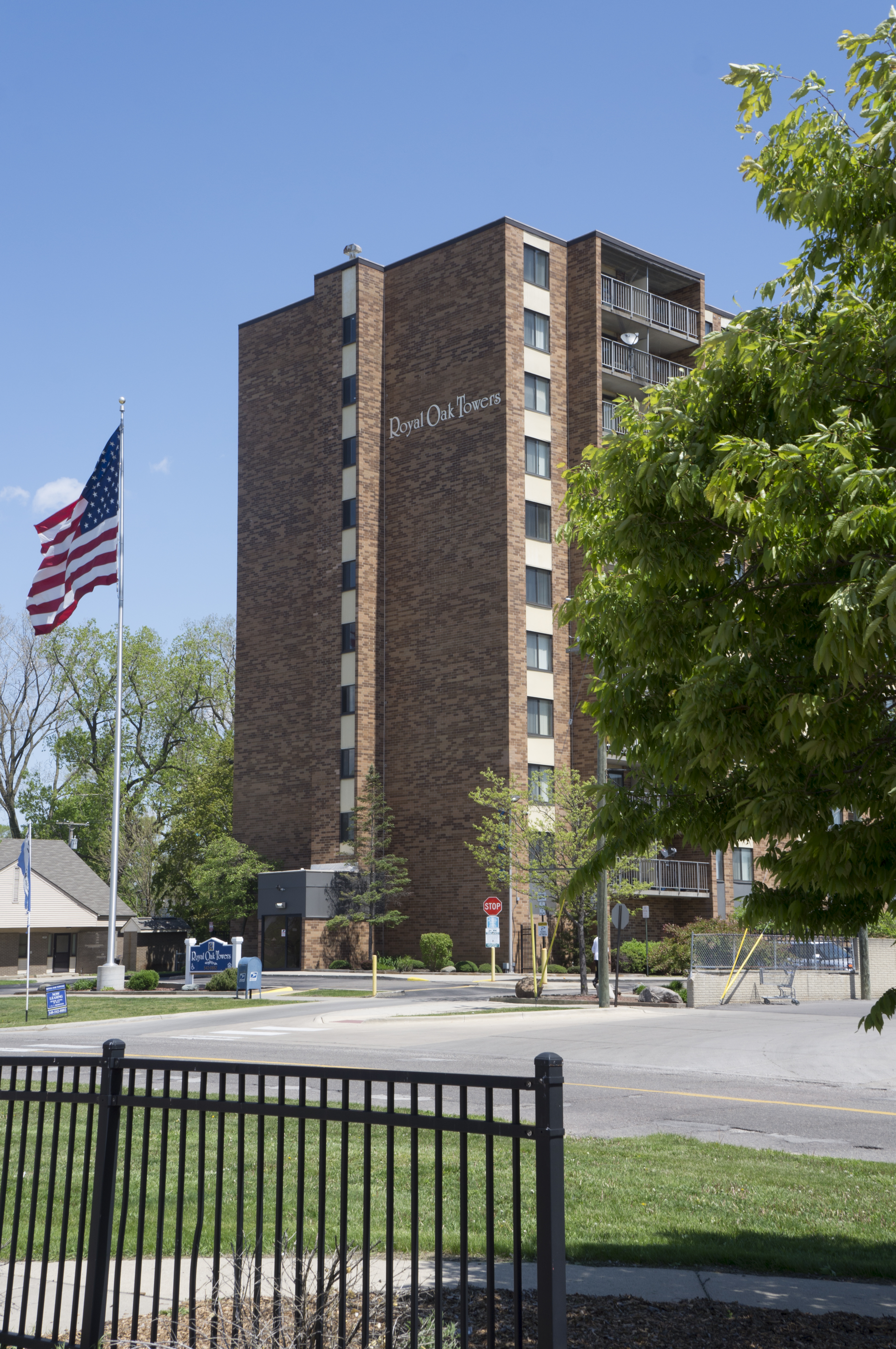 Royal Oak Towers in Royal Oak Charter Township, Michigan